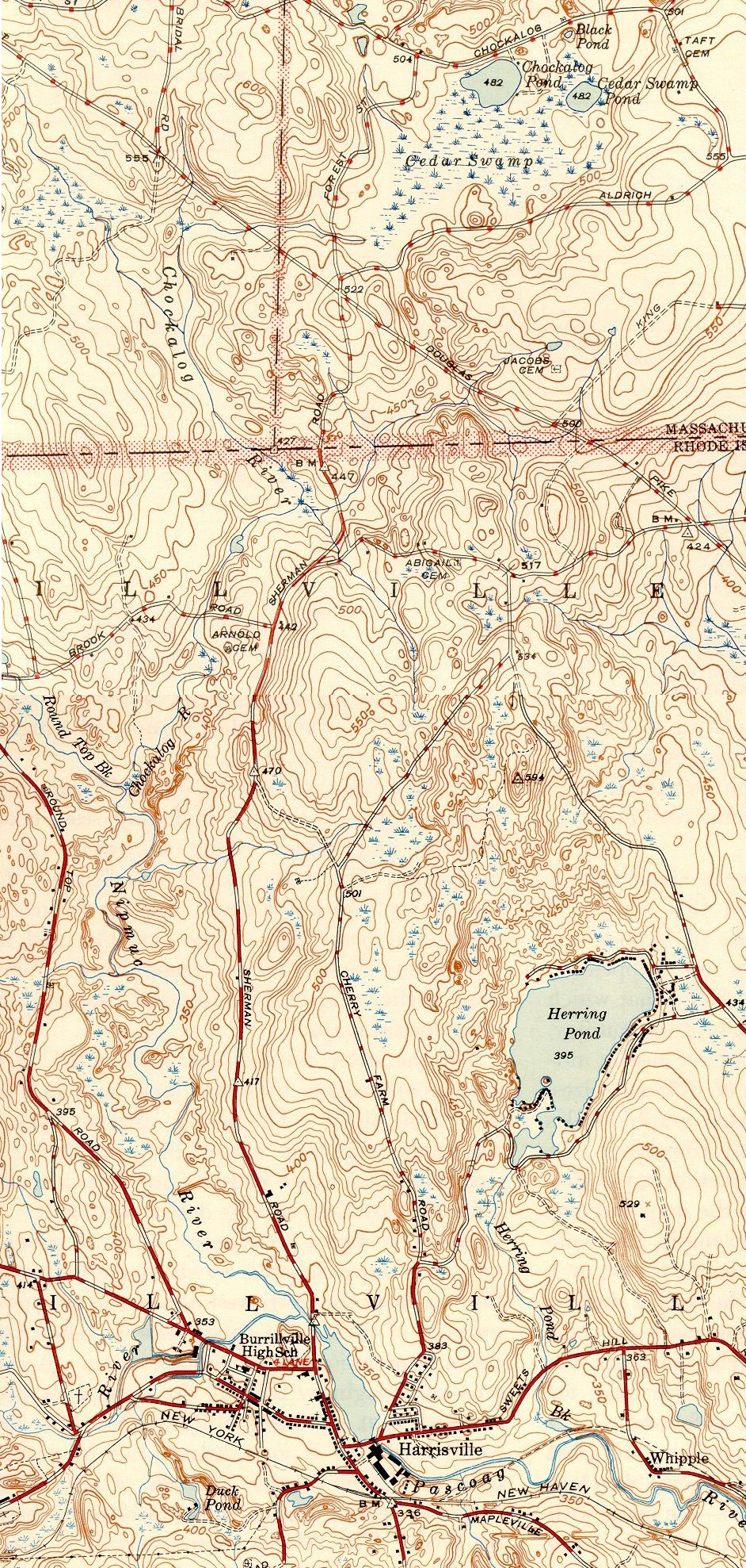 Map of Chockalog River in southern Massachusetts and northern Rhode Island, USA.